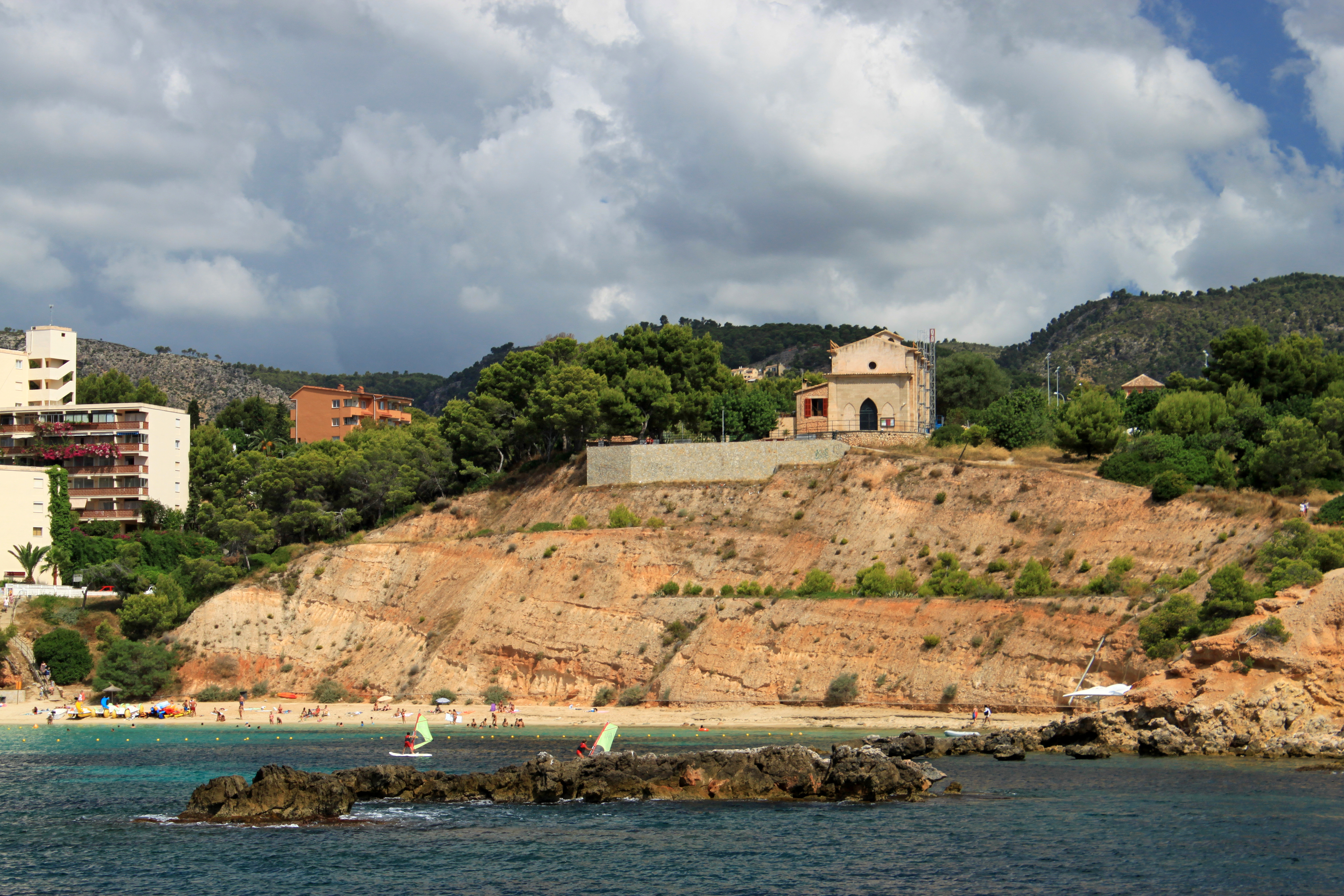 Bendinat, Calvia, Mallorca